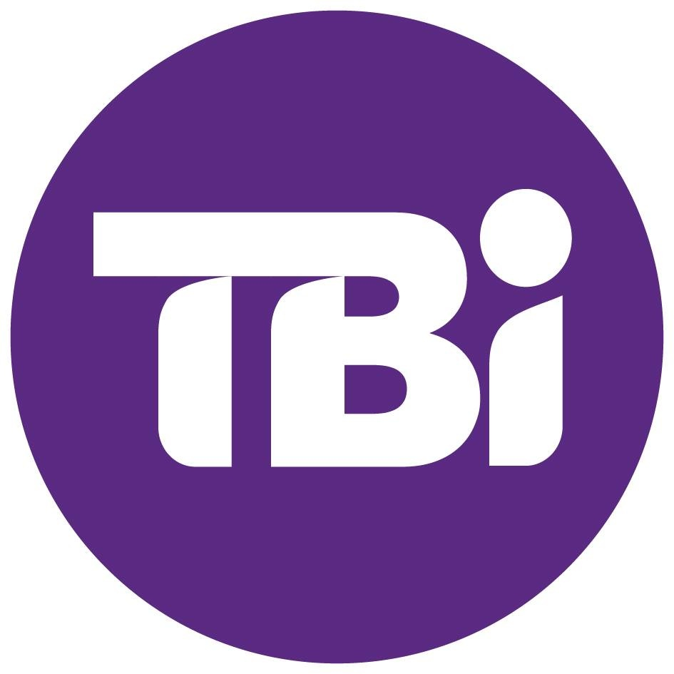 Logo of Ukrainian TVi channel.